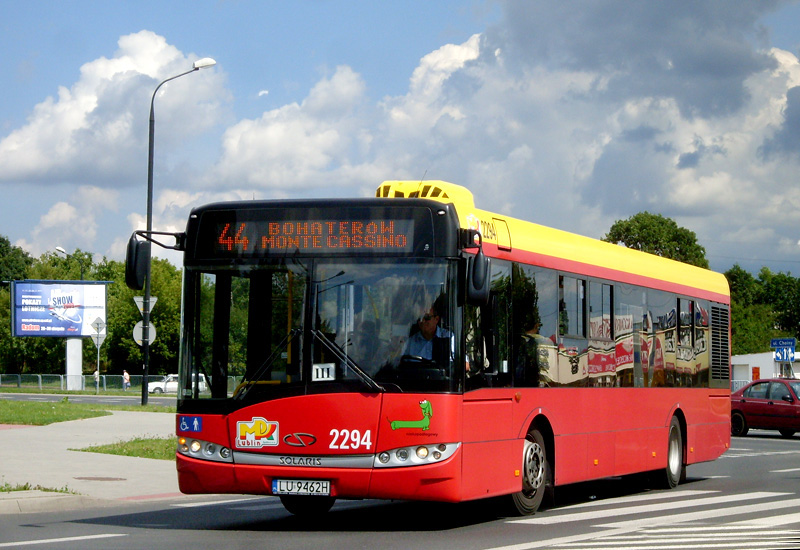 Solaris Urbino 12 W9 bus (#2294) on Elsnera Street in Lublin. Year built 2008, MPK Lublin operator.